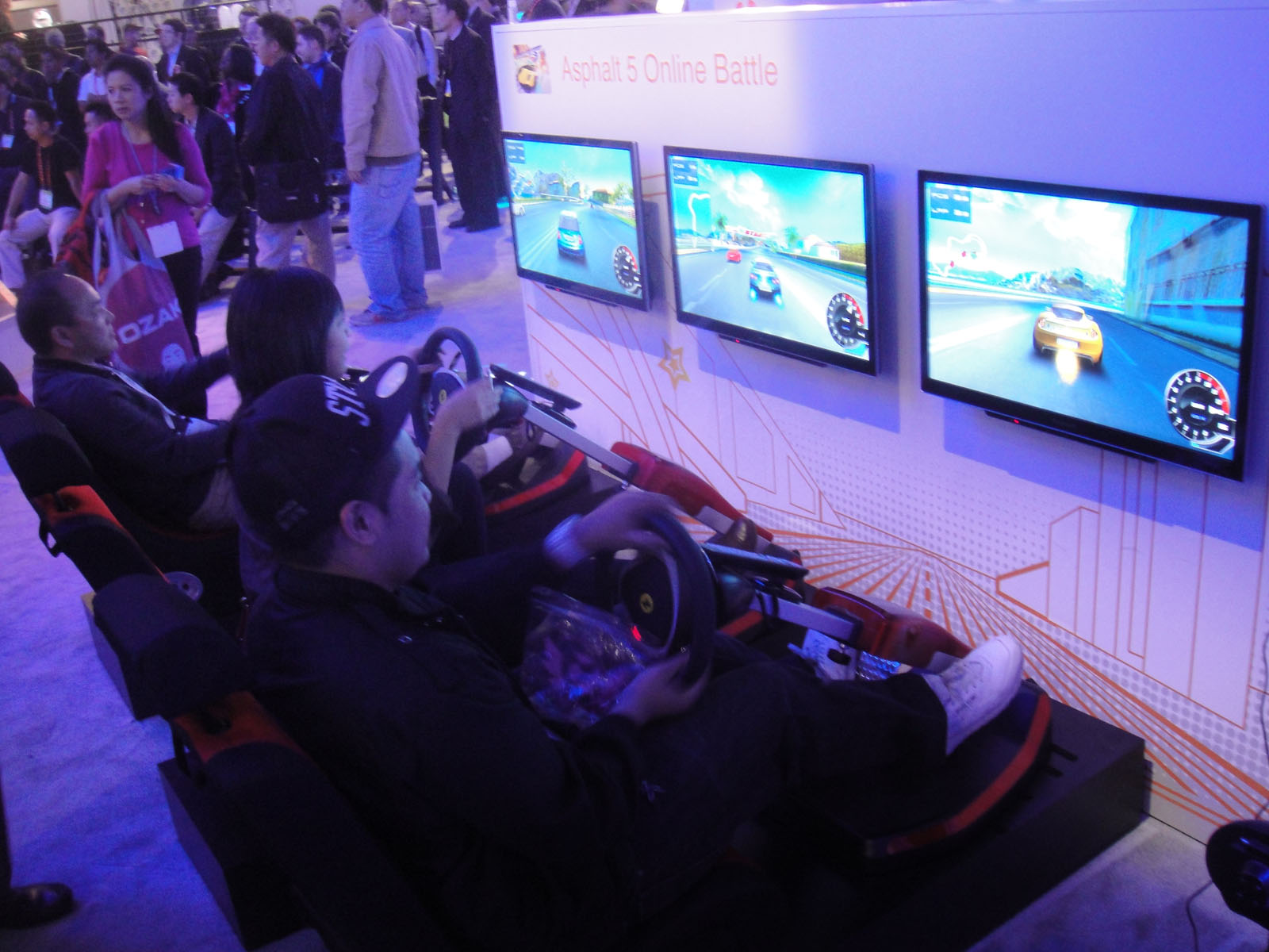 photo 2012 Pop Culture Geek taken by Doug Kline If you're interested in higher resolution versions of my images, contact me via my profile page.